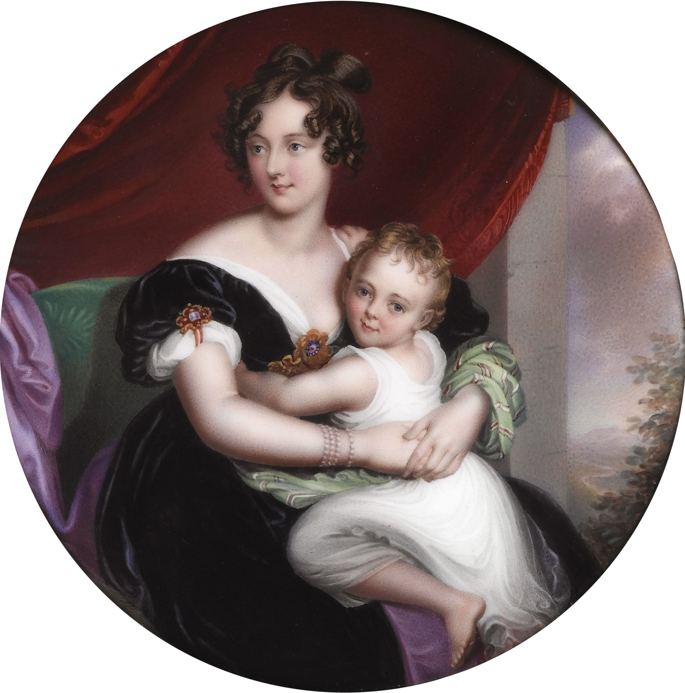 Georgiana Agar Ellis (1804 - –1860) Enamel circular, 7.9 cm dia.